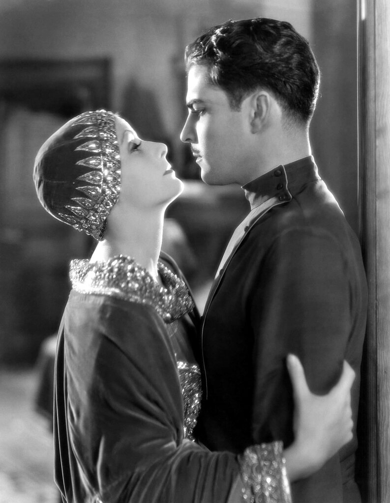 Greta Garbo and Ramon Navarro in a publicity image for Mata Hari (1931).